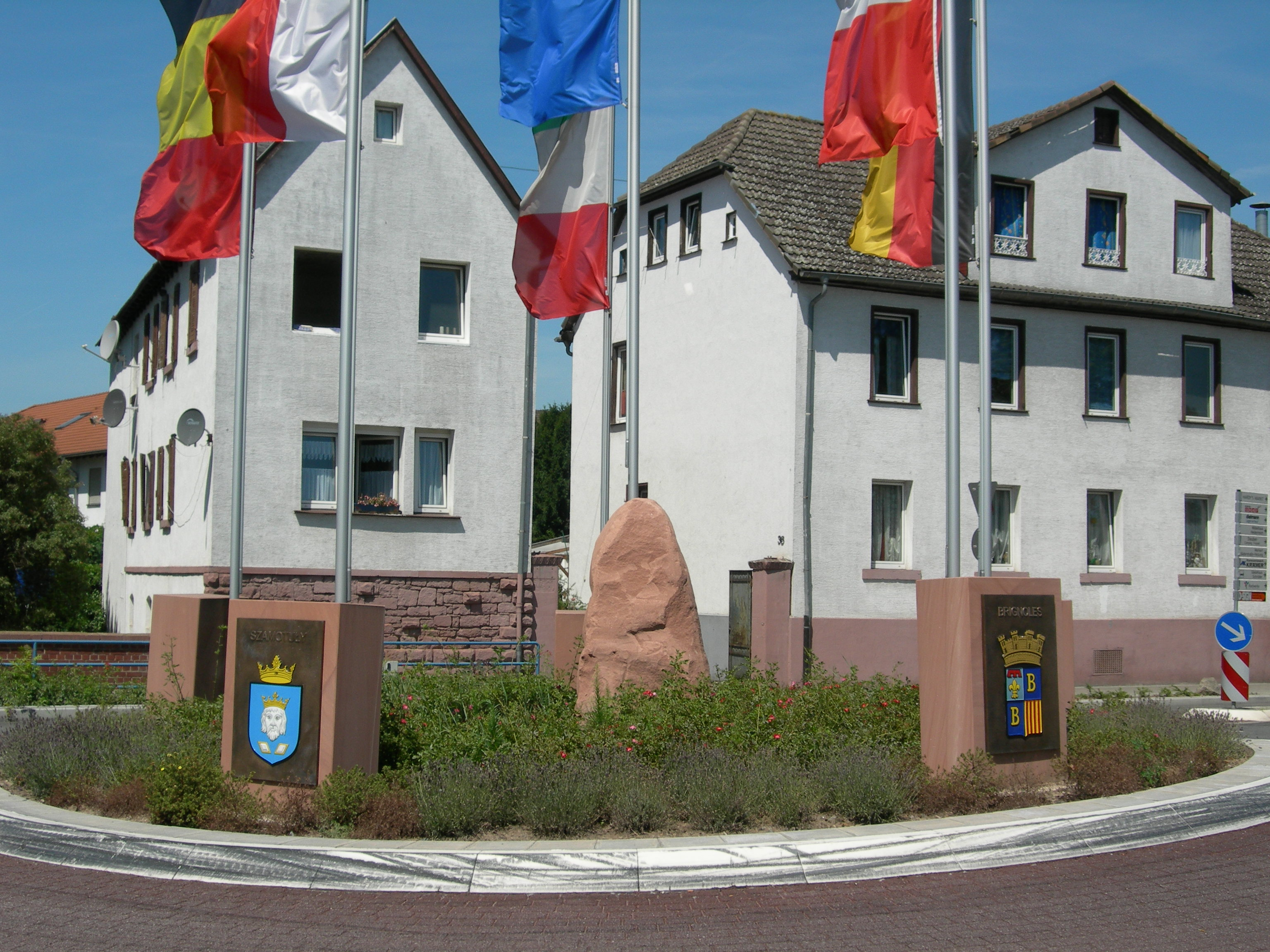 Groß-Gerau (Hesse), coats of arms of the twin towns Szamotuły and Brignoles